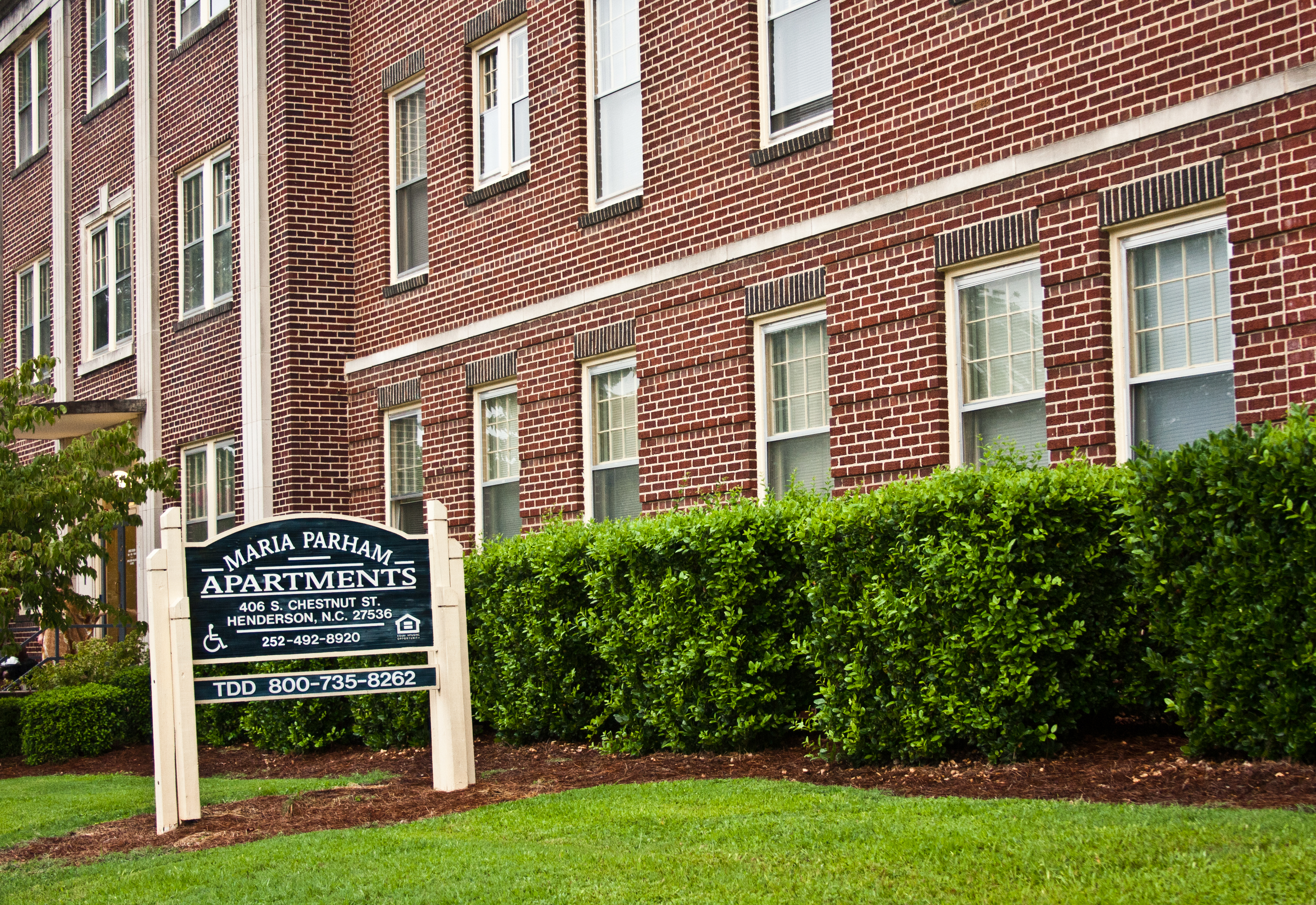 Maria Parham Hospital Maria Parham Apartments on the site of the former Maria Parham Hospital, Henderson, North Carolina